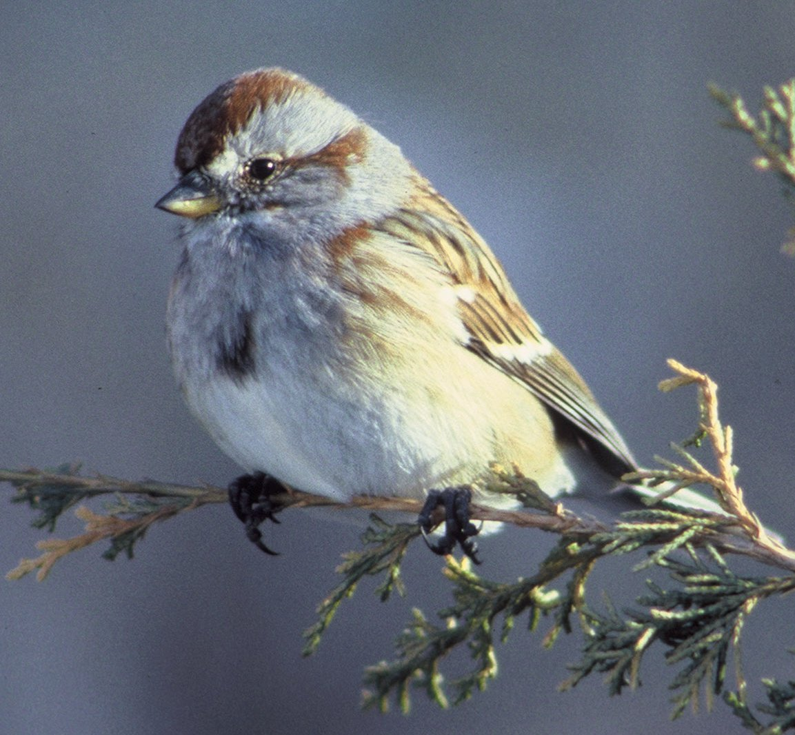 American tree sparrow photographed in the DeSoto National Wildlife Refuge